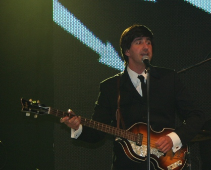 Miroslav Dzunko aka Paul McCartney performing during The Backwards concert